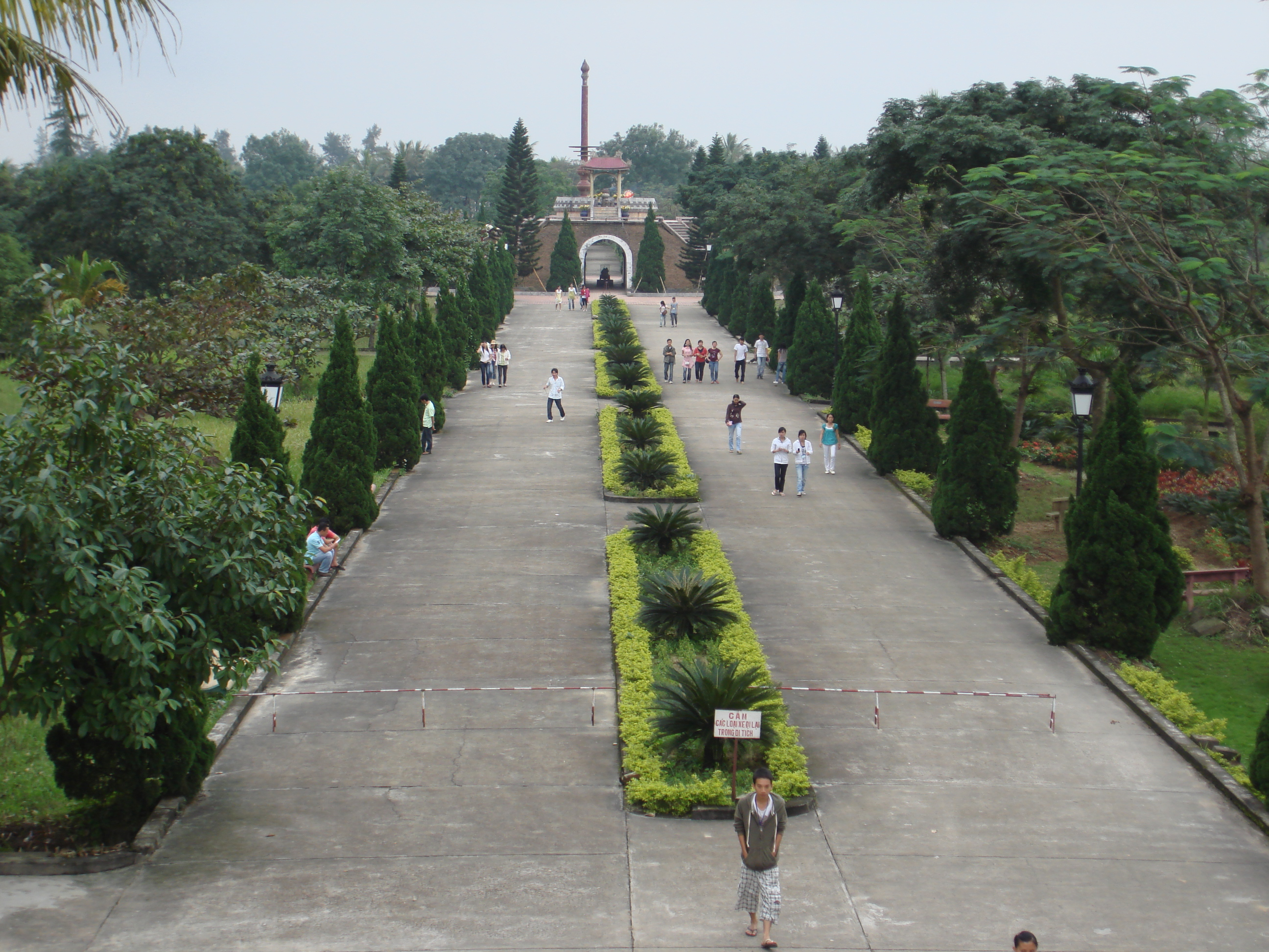 The road to Quang Tri ancient city